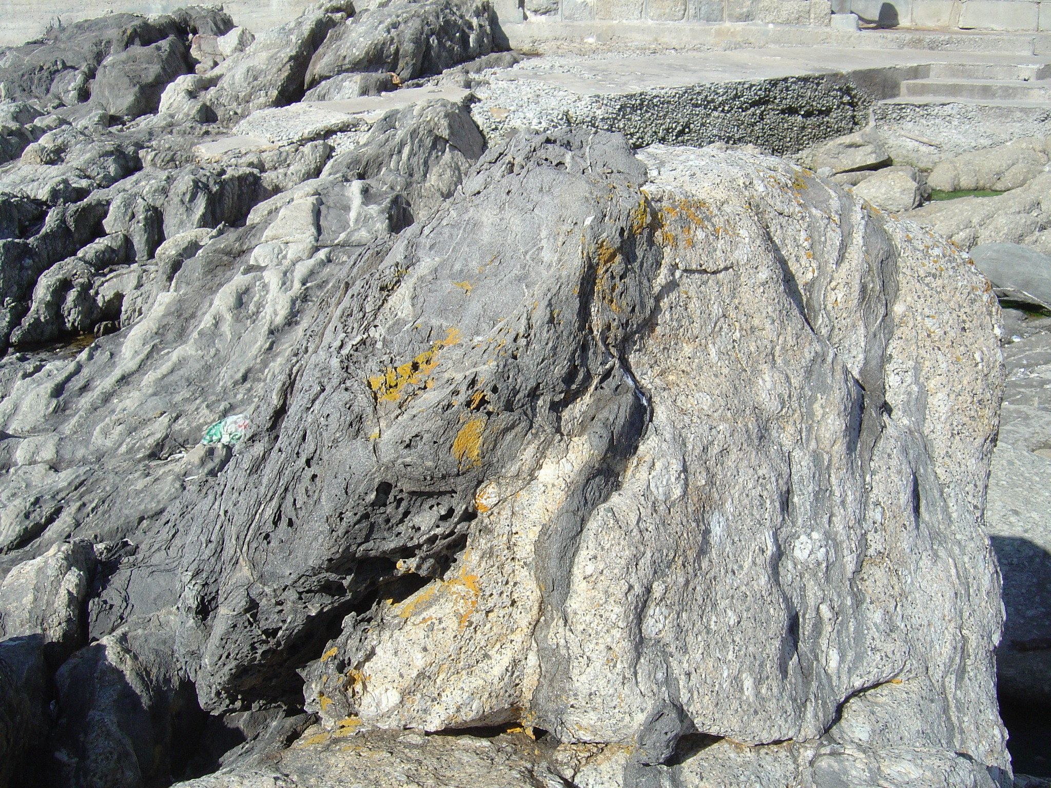 Rocks of the contact zone of the Peninsula pluton and Tygerberg series, Cape Twn.